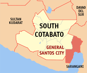 Map of the South Cotabato showing the location of General Santos City